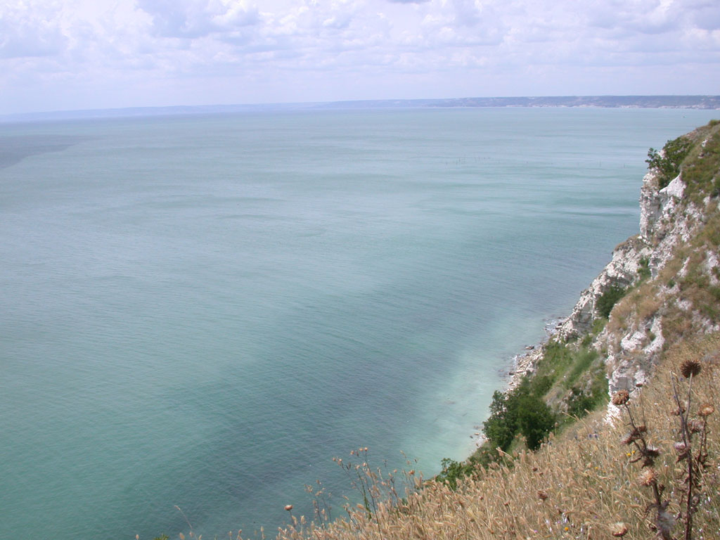 Black Sea, view near Balgarevo, Northeast Bulgaria